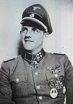 A photograph of Friedrich Suhr (1907–1946) probably taken in the 1930s or 1940s.